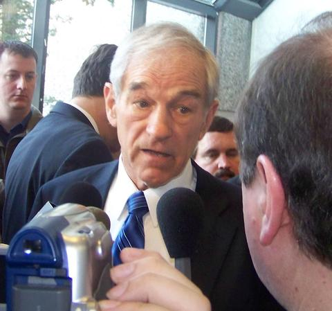 Ron Paul taking questions in Manchester, NH